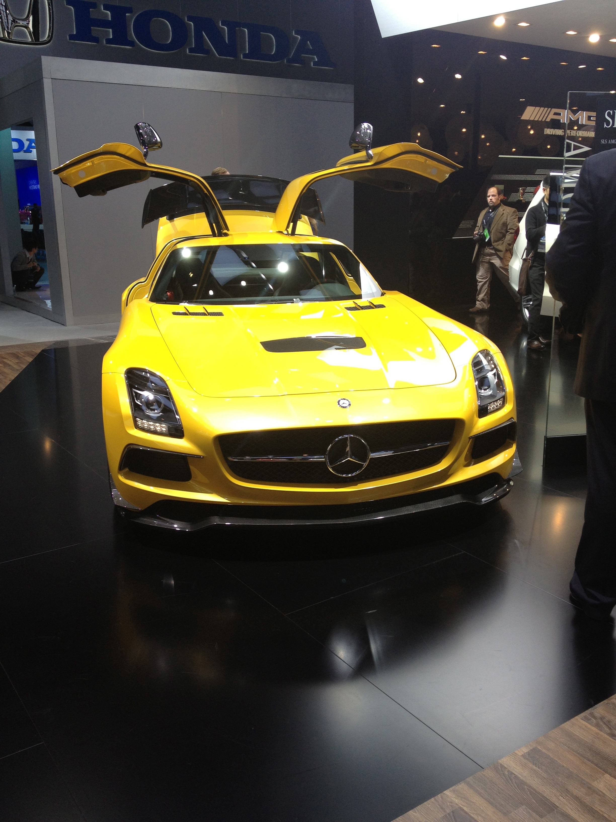 2013 North American International Auto Show Detroit, Michigan